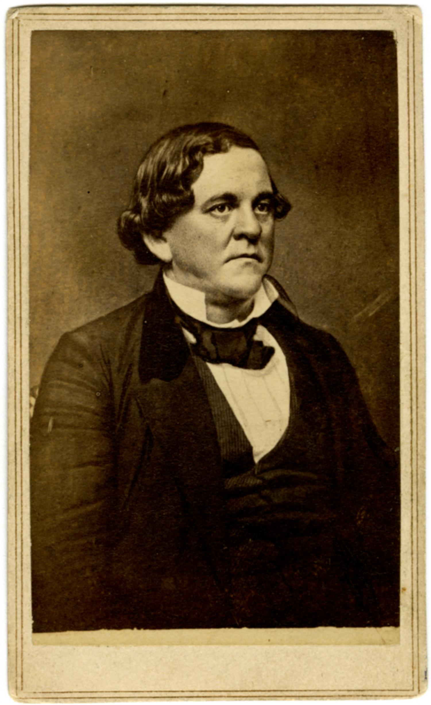 Collection: McCardle (Mrs. W. H.) Photograph Collection Call number: PI/1985.0017 System ID: 104115. Link to the catalog General Howell Cobb, CSA. Portrait carte de visite. Photographer: Charles D. Fredricks Please see our profile page for information on ordering. Scanned as TIFF in 2010/10/01 by MDAH. Credit: Courtesy of the Mississippi Department of Archives and History